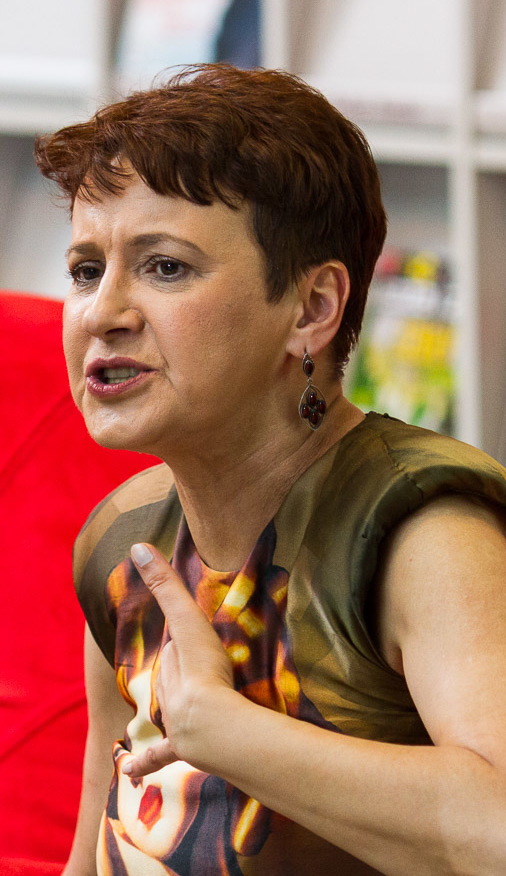 Oksana Zabuzhko on Authors’ Reading Month 2015, Wrocław, Poland